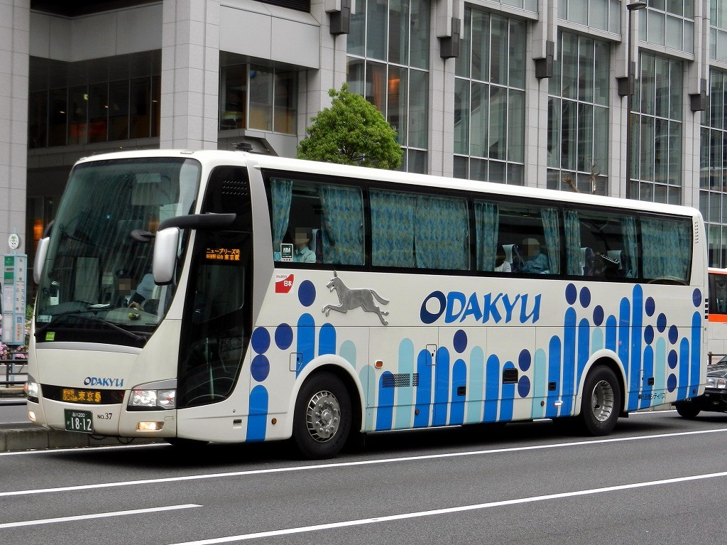 Odakyu city bus Mitsubishi Fuso Aero Queen(BKG-MS96JP)